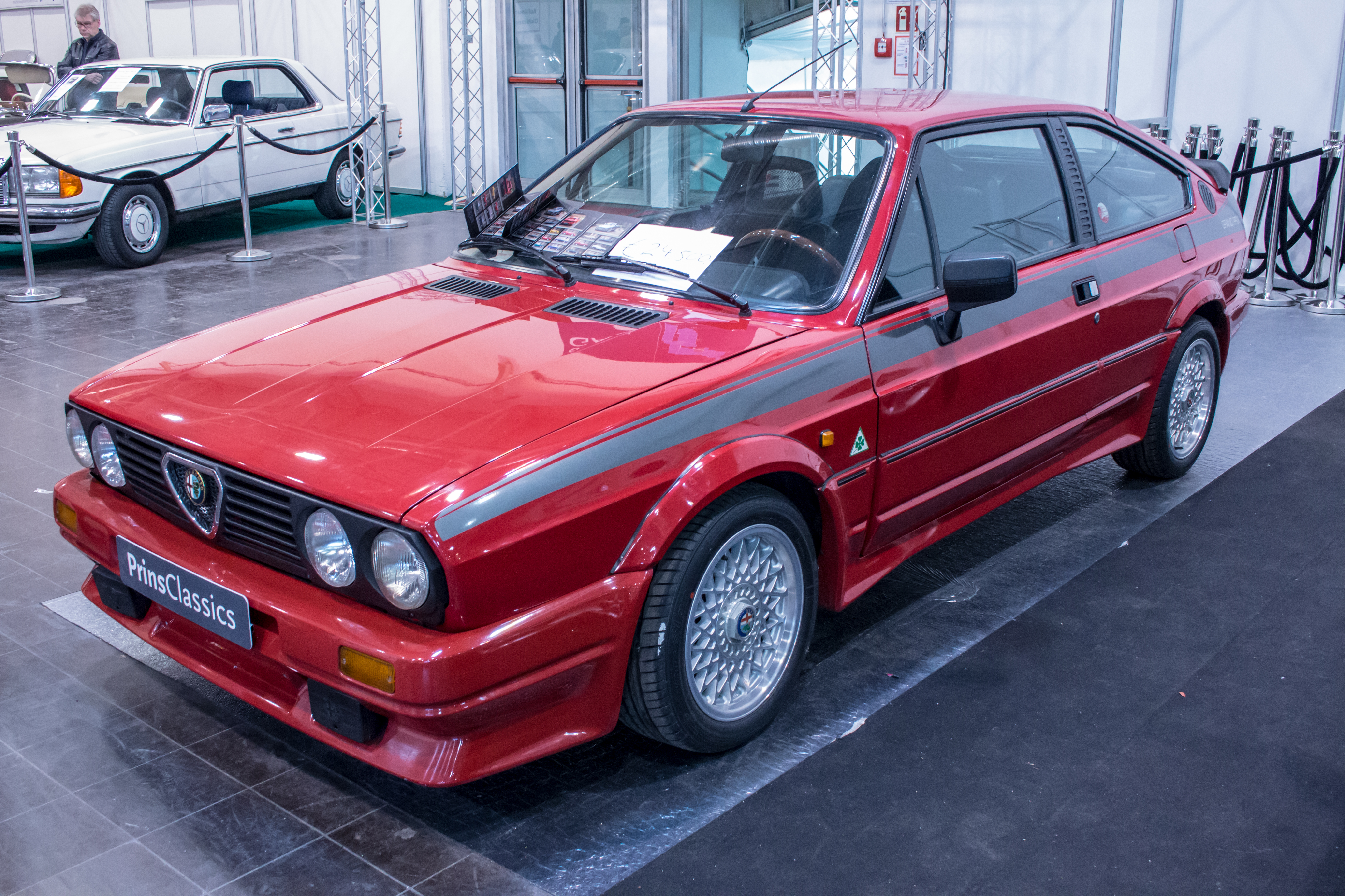 Alfa Romeo, Techno-Classica 2018, Essen